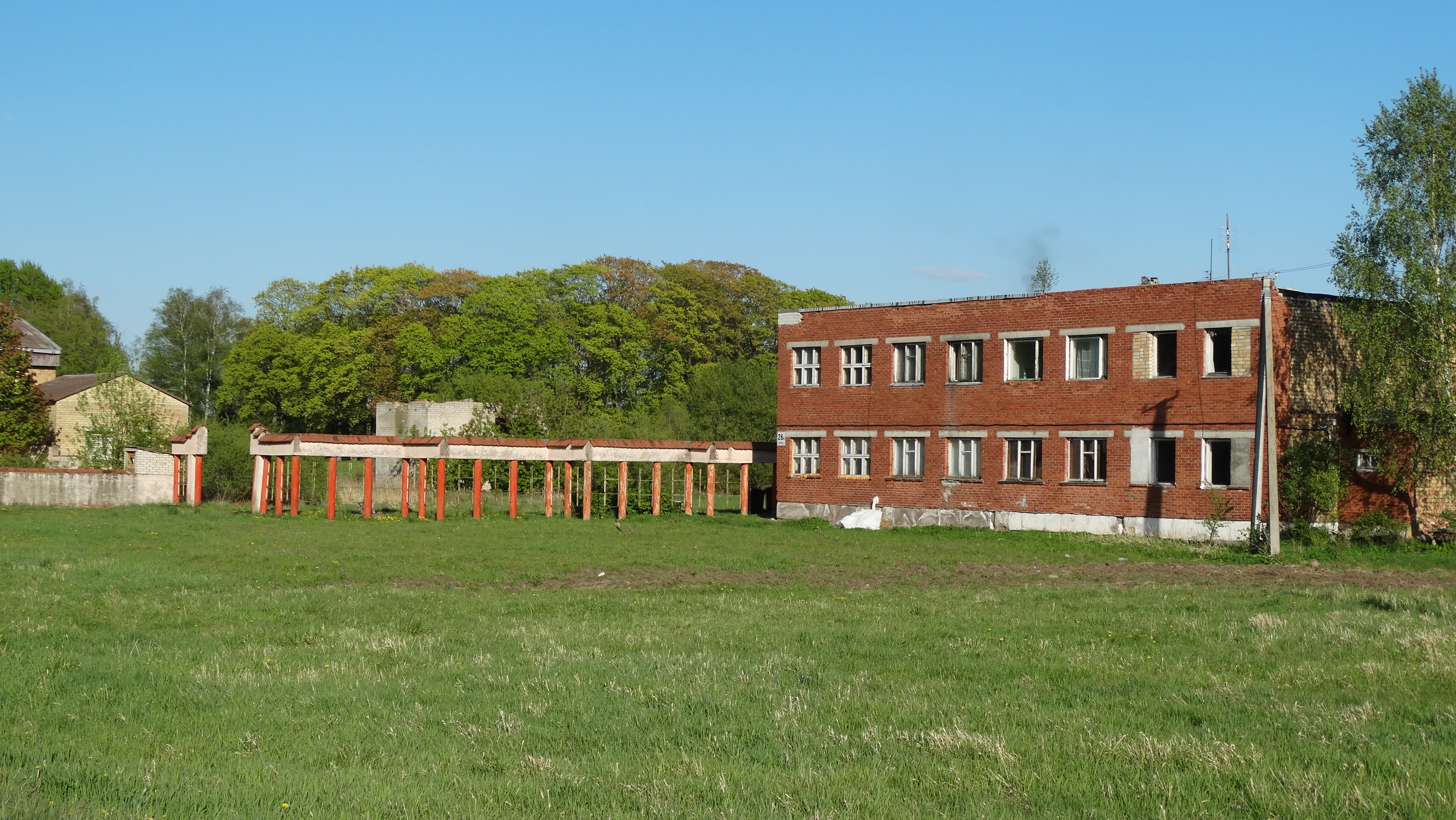 Palonai, Radviliškis District, Lithuania